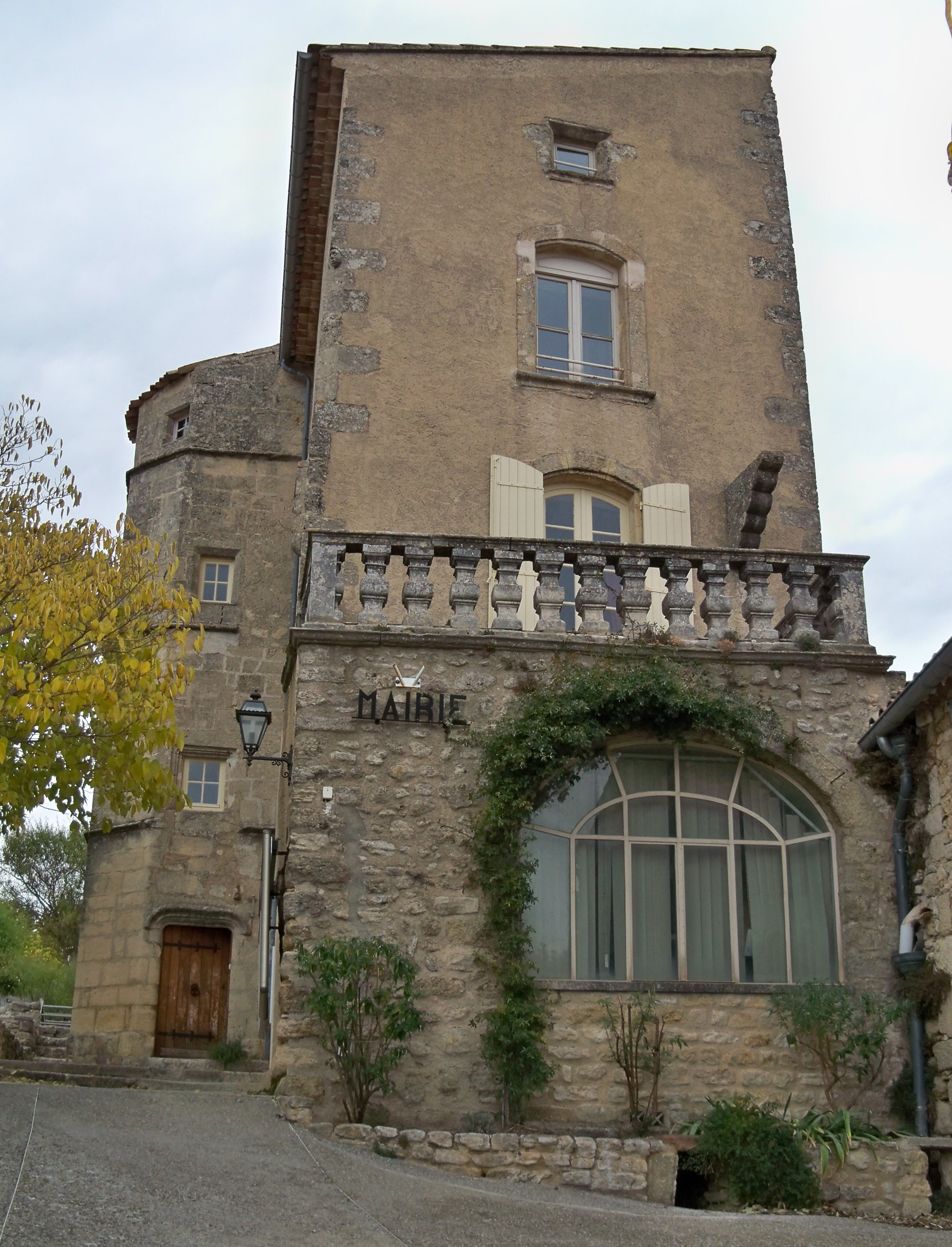 town hall of Viens, Vaucluse, France